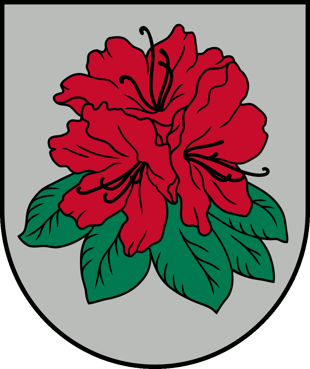 Coat of arms of Babīte Municipality